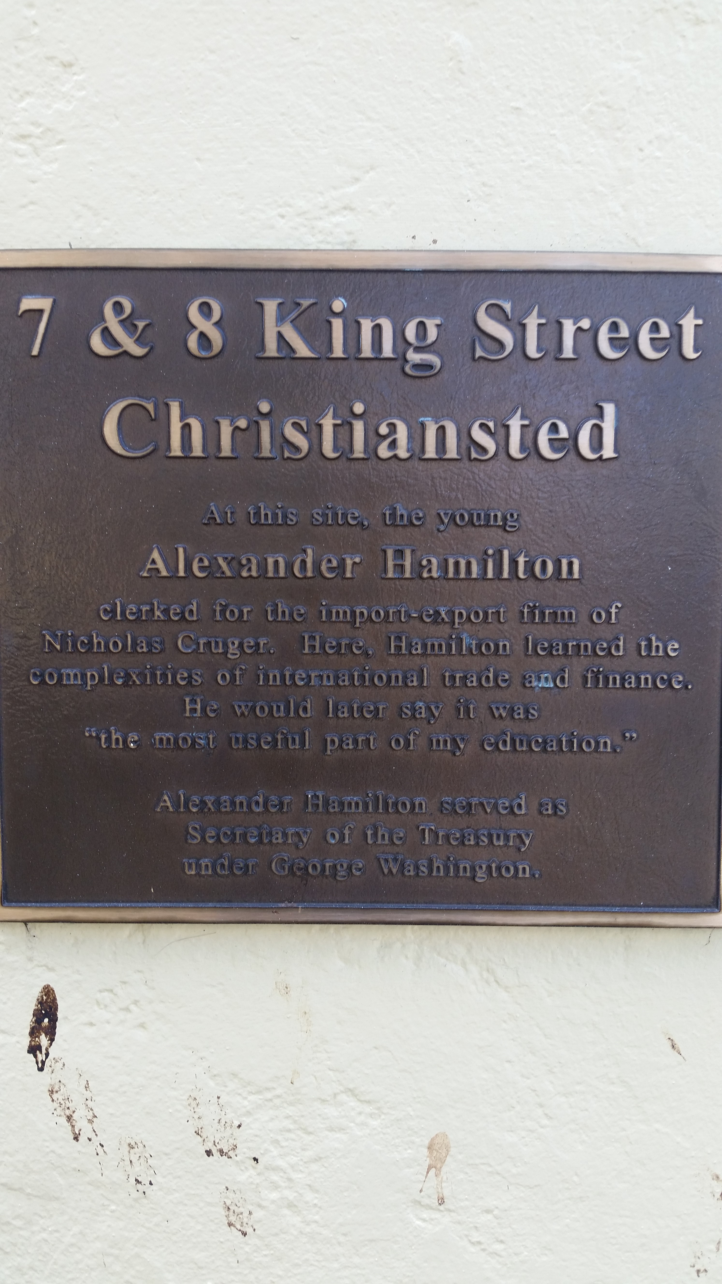 Historical marker for Alexander Hamilton, Christiansted, St. Croix